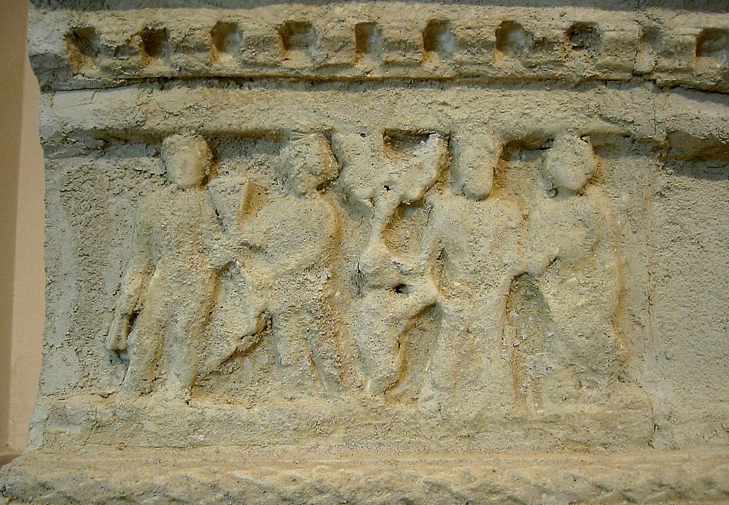 Detail of Stupa C1, Hadda, Musee Guimet.